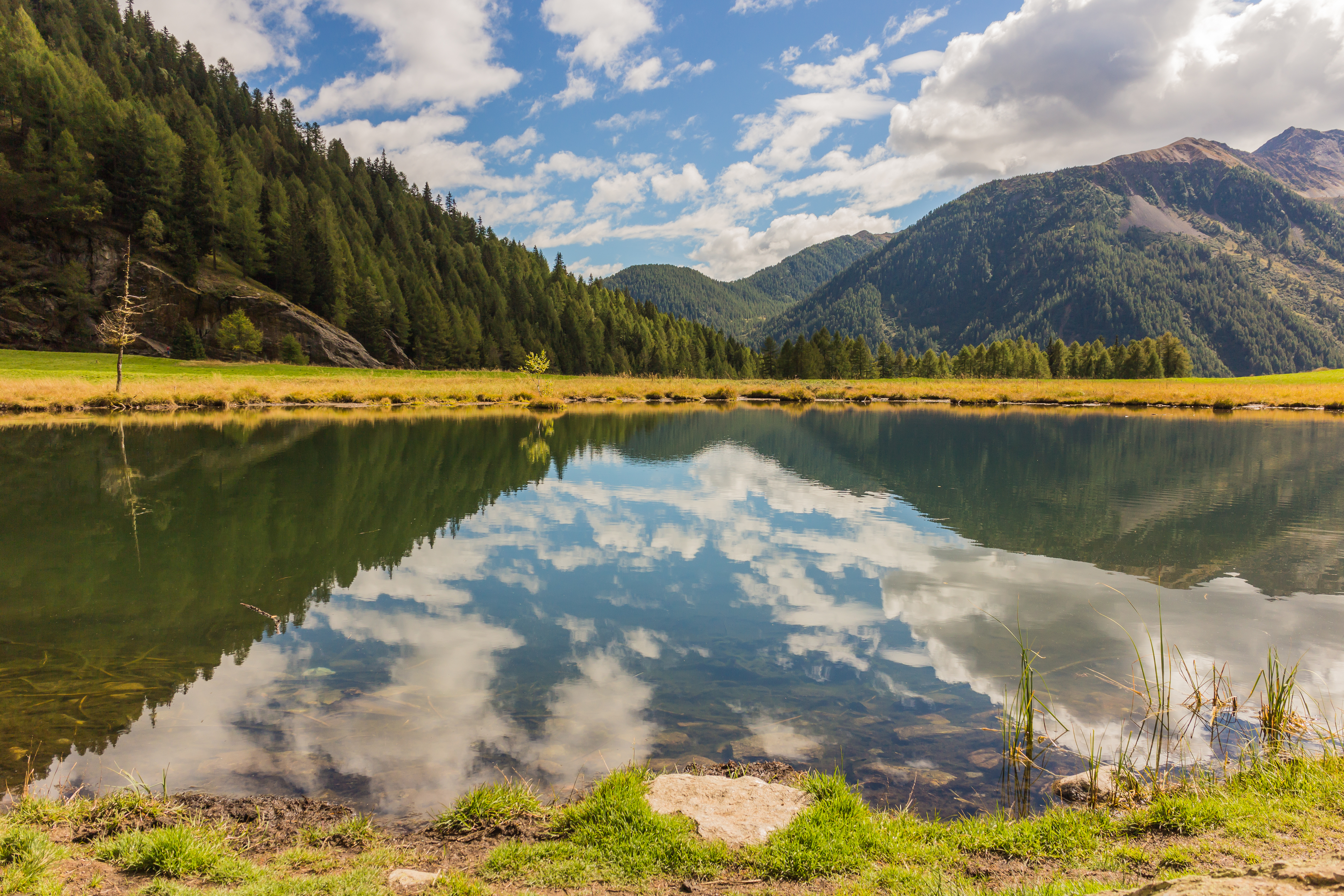 Mountain walk from Pejo to Lago Covel (1,839 m) in the Stelvio National Park (Italy). Lago Covel (1,839 m).